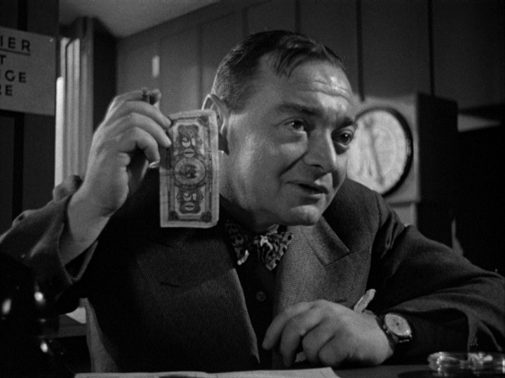 Peter Lorre in Quicksand - cropped screenshot